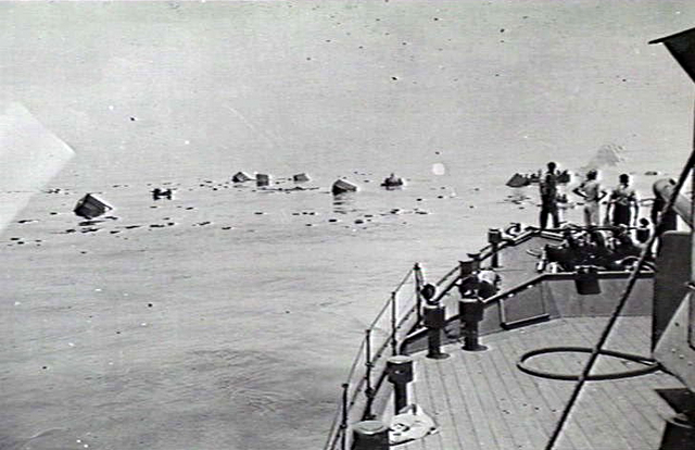 New Guinea : Oro Bay, Buna. Survivors of the Dutch cargo steamer 'sJacob, sunk by Japanese bombers, cling to wreckage awaiting rescue by the corvette HMAS Bendigo seen in the foreground.